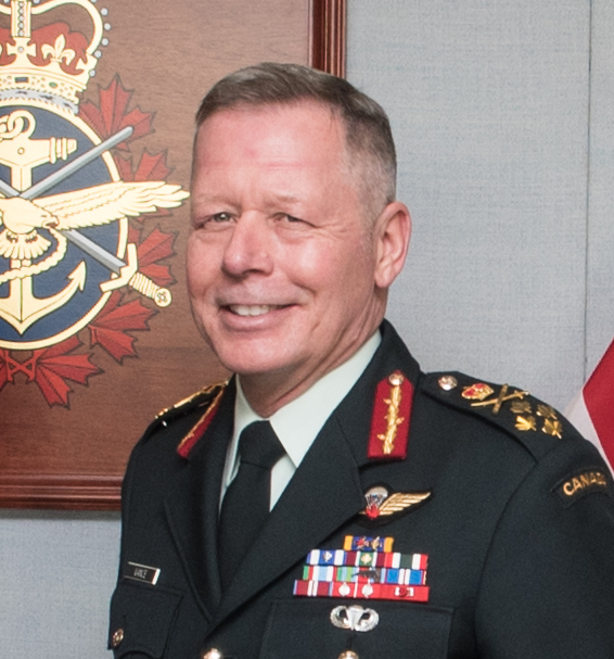 U.S. Marine Corps Gen. Joe Dunford, chairman of the Joint Chiefs of Staff, and Canadian Gen. Jonathan Vance, Canadian Armed Forces Chief of Defence Staff, pose for a photo before an office call during a visit to Ottawa, Canada, Feb. 28, 2018. Gen. Dunford was in Ottawa for meetings with senior Canadian officials on the ongoing evolution of the North American Aerospace Defense Command. (DoD Photo by U.S. Army Sgt. James K. McCann)